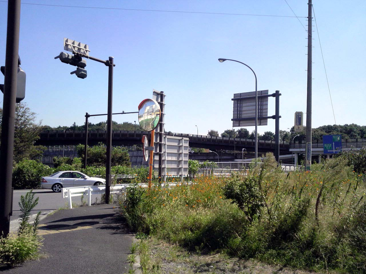 imai IC